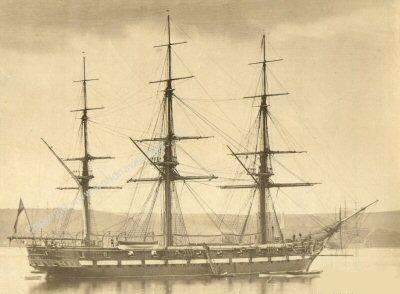 Photograph of British corvette HMS Pearl.